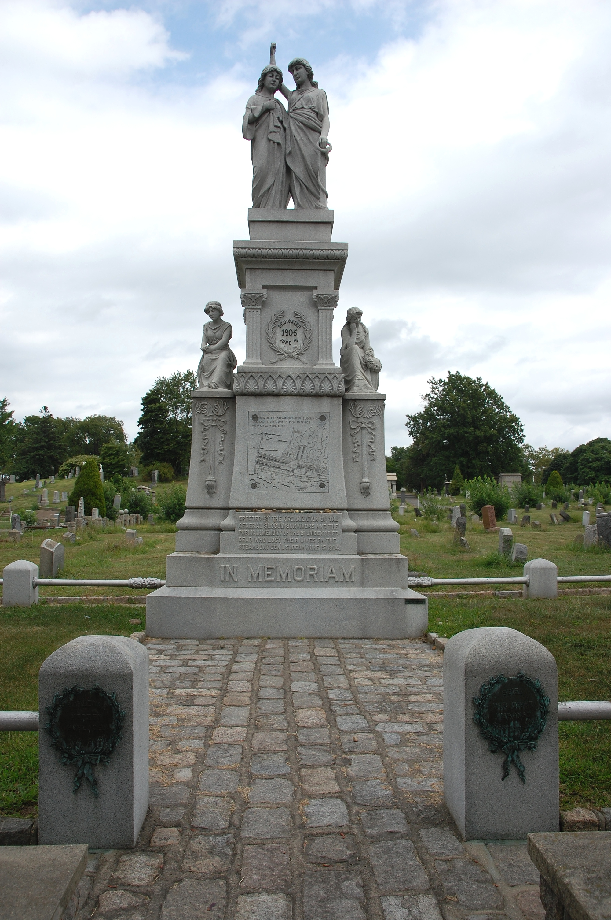 General Slocum Steamship Disaster Memorial at Lutheran All Faiths Cemetary in Middle Village, Queens - Front view of the monument.